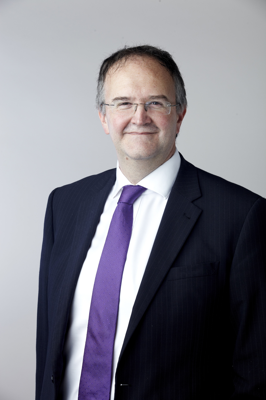 Professor Nicholas Talbot FRS, Royal Society Fellow elected 2014. Attribution: The Royal Society